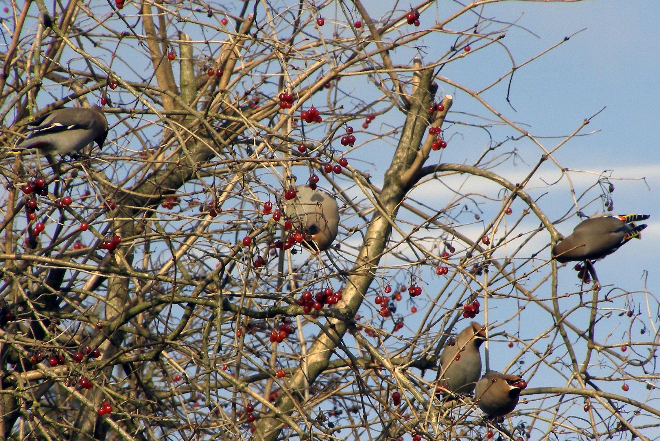 Bombycilla garrulus living in a small society